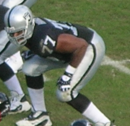 The Oakland Raiders on offense during a home game against the Atlanta Falcons. The Falcons won 24-0.